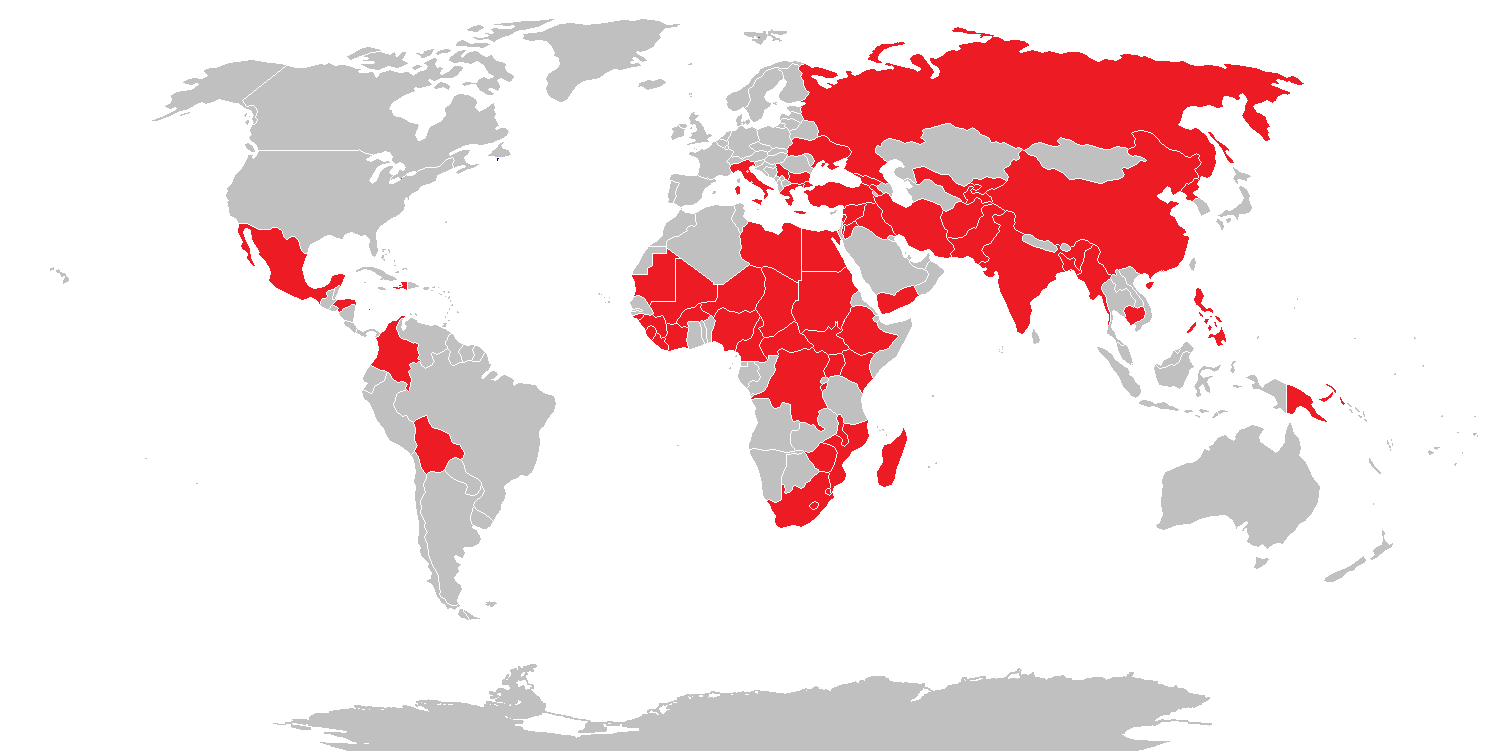 World map shows the countries where Médecins Sans Frontières had it activities in2014.